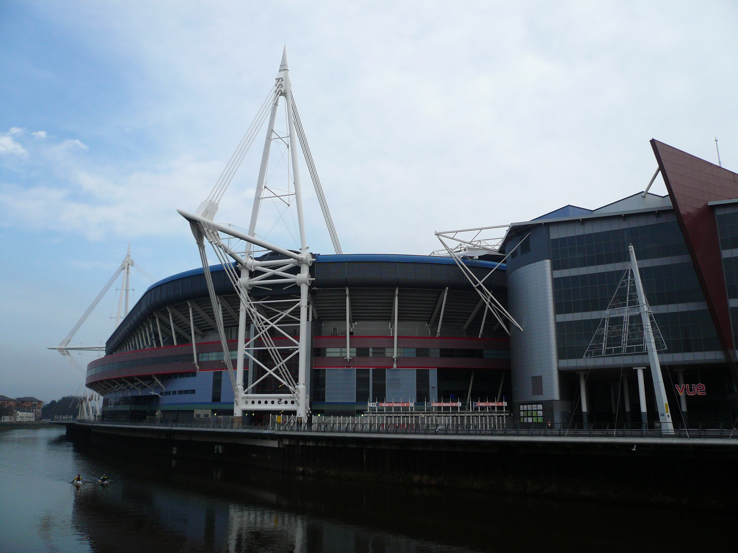 Millennium Stadium